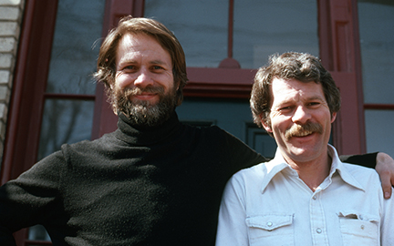 Photograph of Greg Curnoe and Rudolf Bikkers 1979